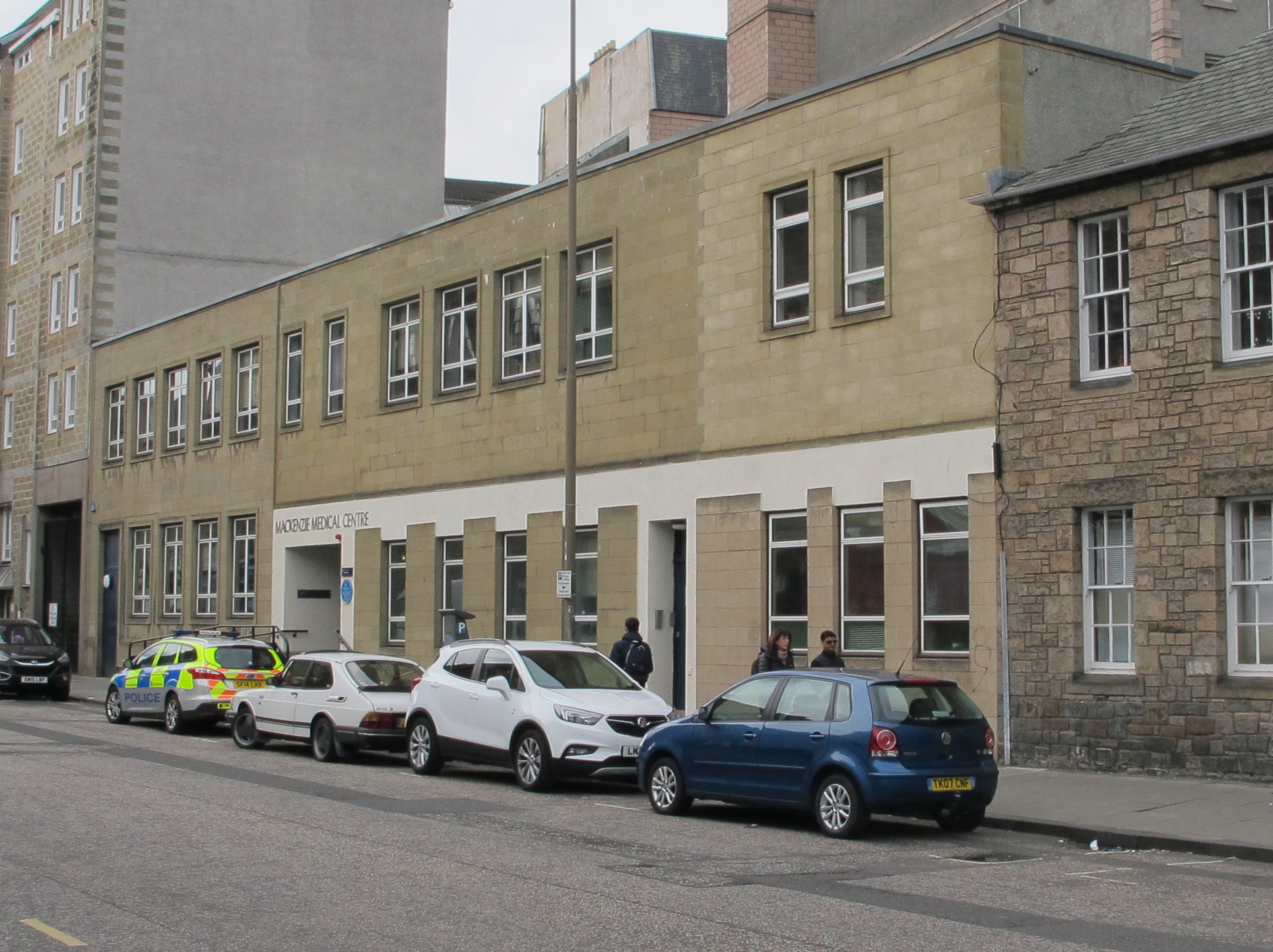 Mackenzie Medical Centre, University of Edinburgh General Practice